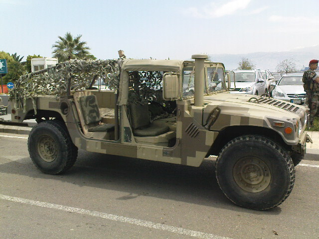 A Lebanese Navy SEALs HMMWV during Security Middle East Show in BIEL, Beirut - Lebanon.